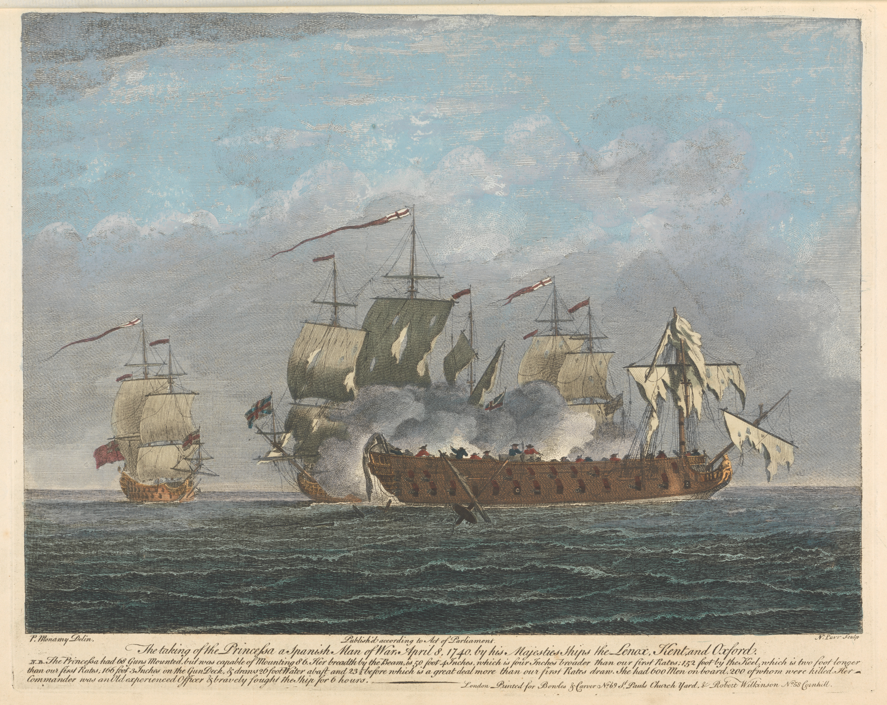 Titleː The taking of the Princessa a Spanish Man of War, April 8, 1740 by His Majesties Ships the Lenox, Kent, and Oxford Mediumː Hand-colored engraving on wove paper Dimensionsː 12 1/2 x 18in. (31.8 x 45.7cm) Inscription(s)/ Marks/ Letteringː--N.B. The Princessa had 68 Guns Mounted, but was capable of Mounting 86 . Her breadth by the Beam, is 50 foot 4 Inches, which is four Inches broader than our first Rates; 152 foot by the Keel, which is two foot longer than our first Rates; 166 foot 3 Inches on the Gun Deck, & draws 26 foot Water abast and 23 1/2 before which is a great deal more than our first Rates draw. She had 600 Men on board, 200 of whom were killed. Her Commander was an Old experienced Officer & bravely fought the Ship for 6 hours. Publish'd according to Act of Parliament. London Printed for Bowles & Carver No 69 St. Pauls Church Yard, & Robert Wilkinson No. 58 Cornhill Credit Lineː Yale Center for British Art, Paul Mellon Collection Accession Numberː B1995.13.132 Collectionː Prints and Drawings Noteː Collections of the National Maritime Museum confirms ‘Orford’ (incorrectly named in the print as ‘Oxford’)